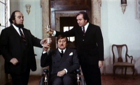 Screenshot from Porcile